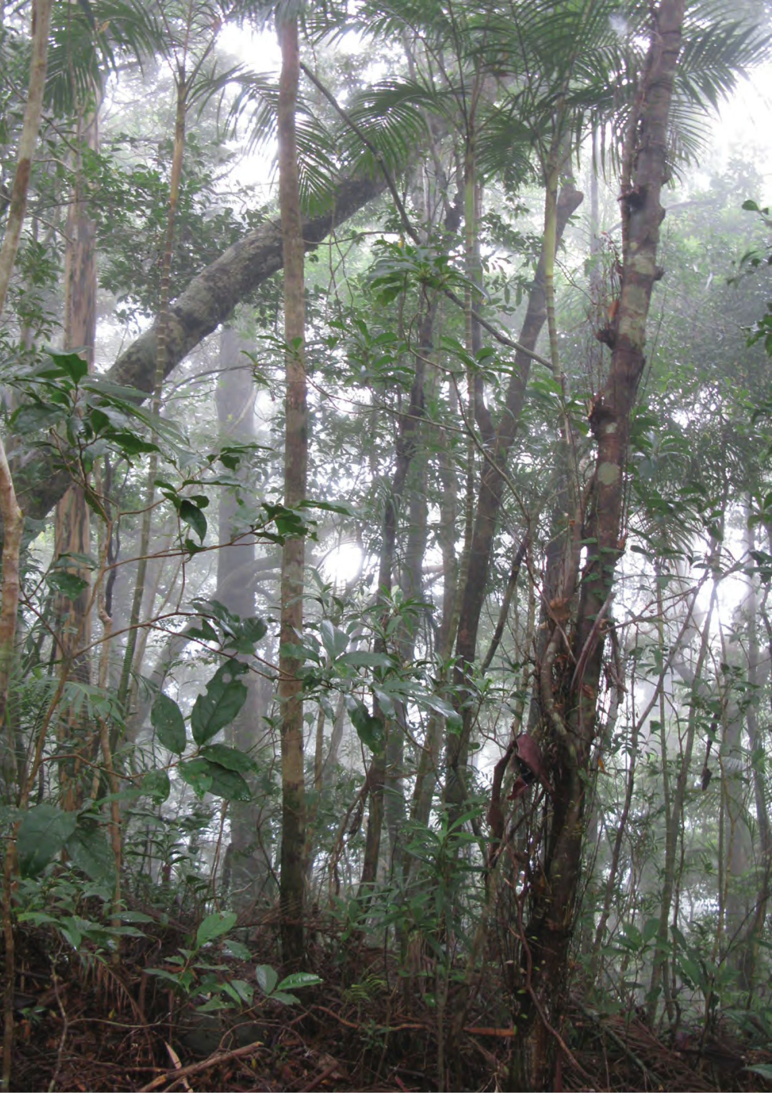 Mt. Cagua cloud forest below the canopy at 1250 m asl. Photo: RMB.